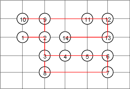 solved Goishi Hiroi grid